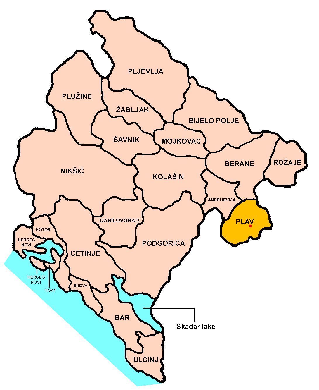 Location of Plav town and municipality within Montenegro